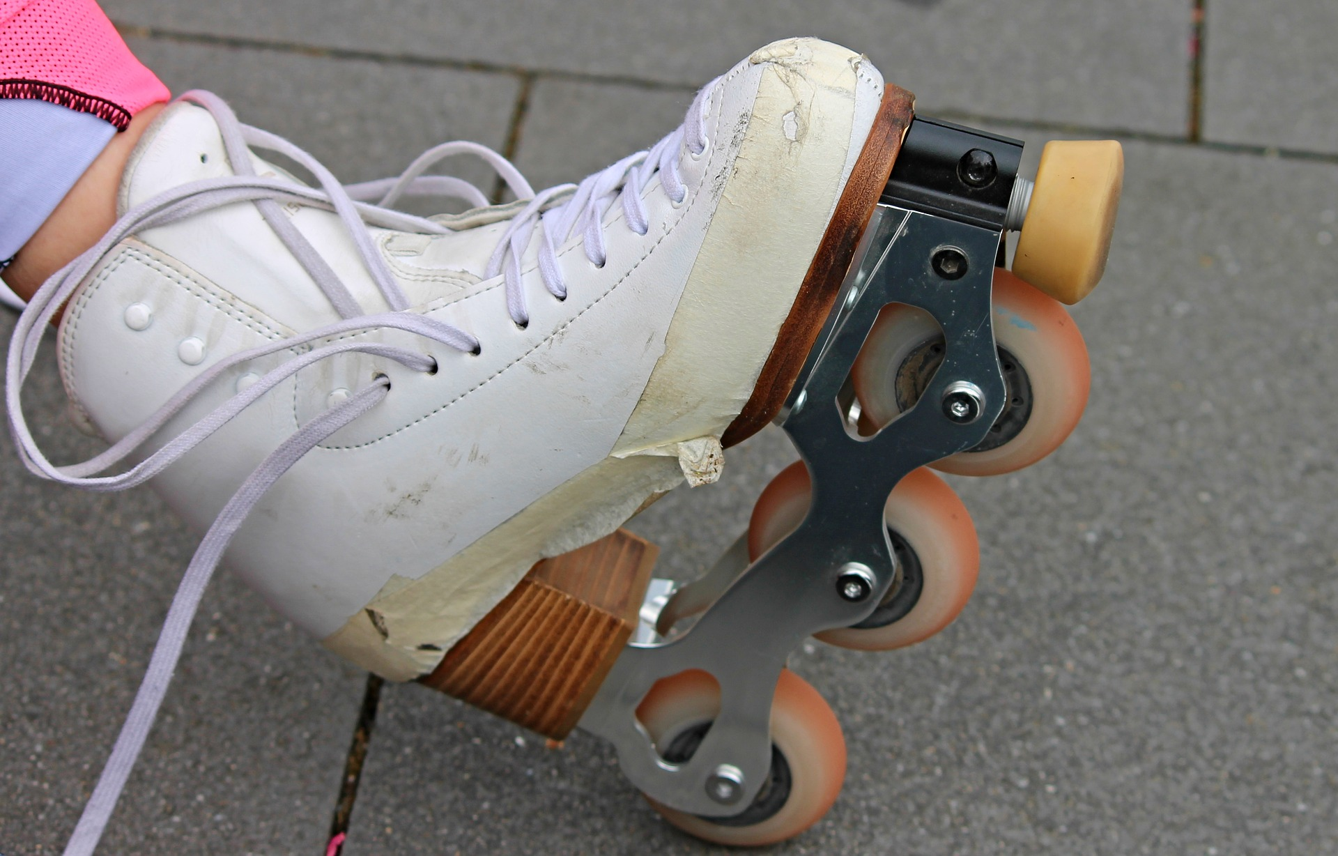 Three wheeled inline figure skate with a toe stop, suitable for jumps and spins.